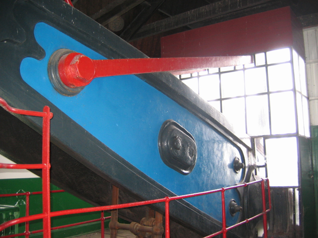 Cornish Beam Engine, Prestongrange Industrial Heritage Museum, Prestonpans, East Lothian, Scotland